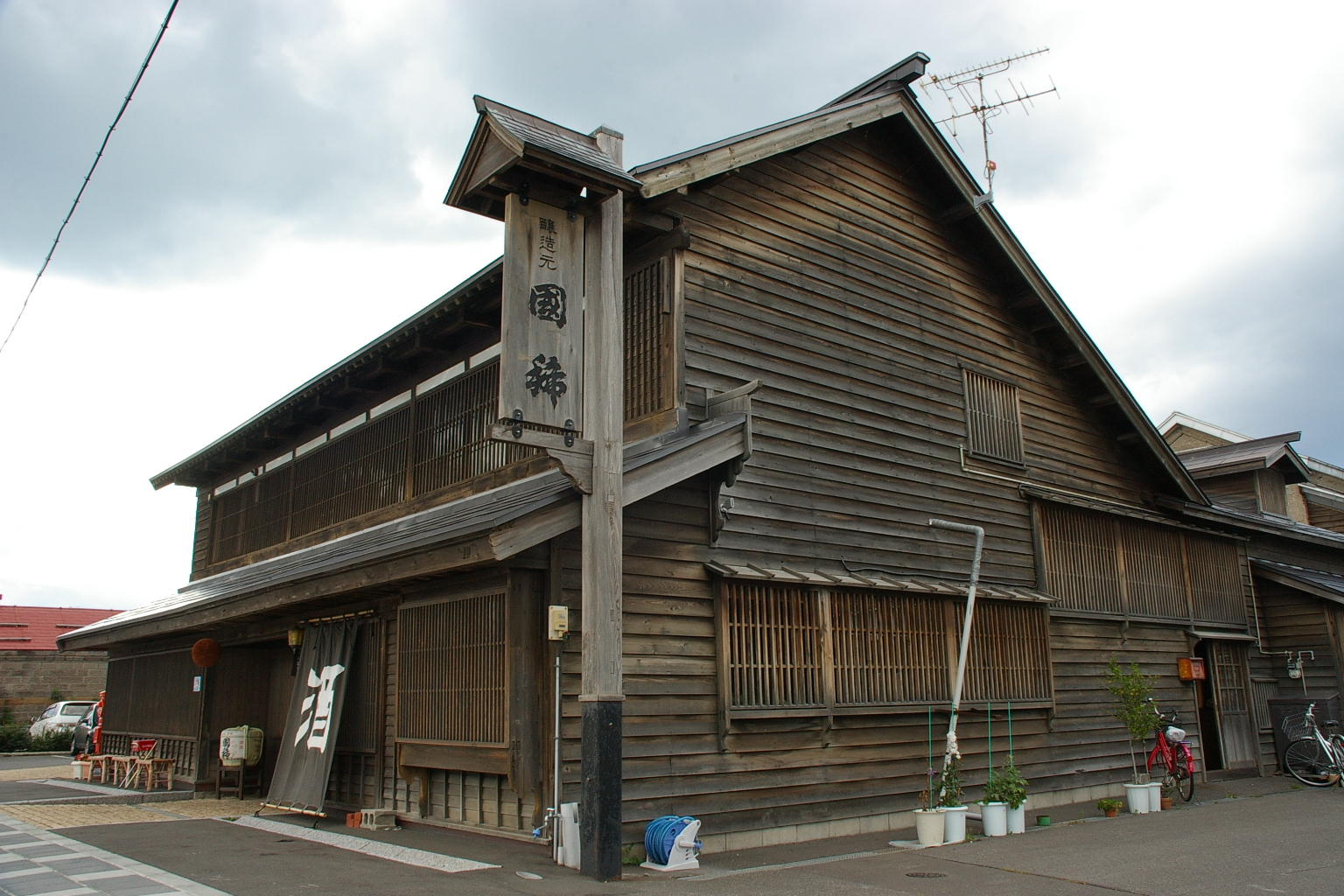 Kunimare Brewing, Mashike town hokkaido.